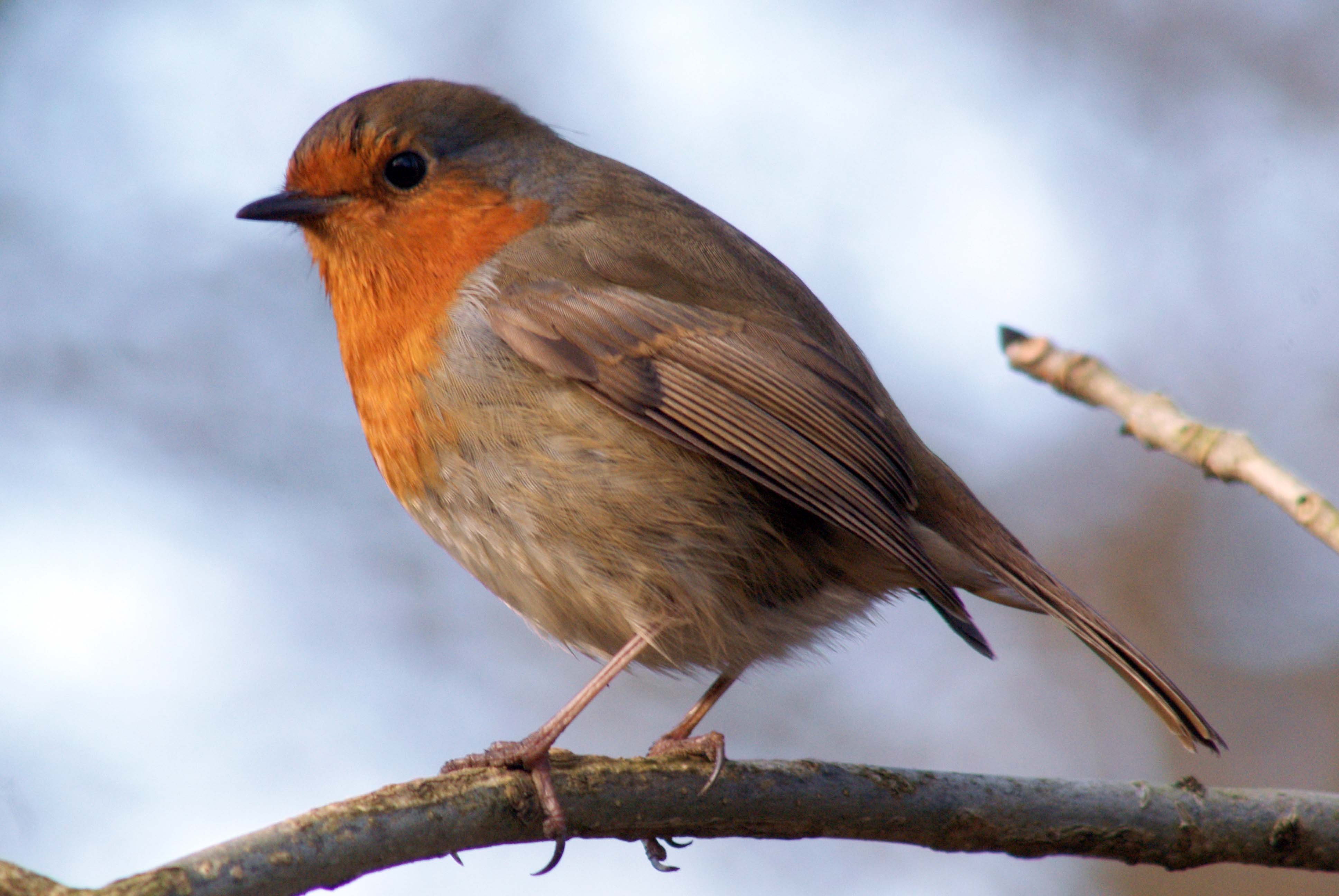 Robin, Leighton Moss January 2009